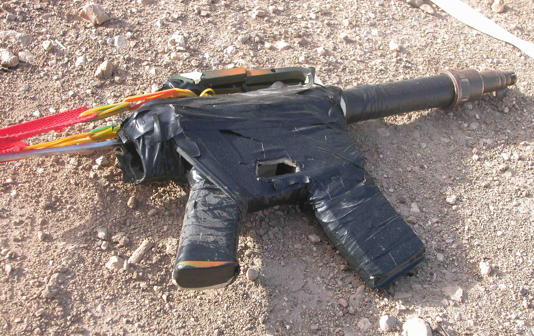 05/07/2004 Following shots fired towards an IDF post near Mavo Dotan, IDF forces scanned the area. The forces were surprised to find two children from the village of Kabatiya who had a hand-made gun from which the shots were fired. This is not the first time terrorist parties take advantage of children, as those involved in terrorist attacks get younger and younger.